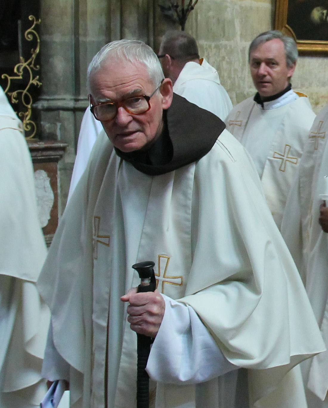 Michal František Pometlo after the Holy mass on Candlemas, St. Vitus Cathedral